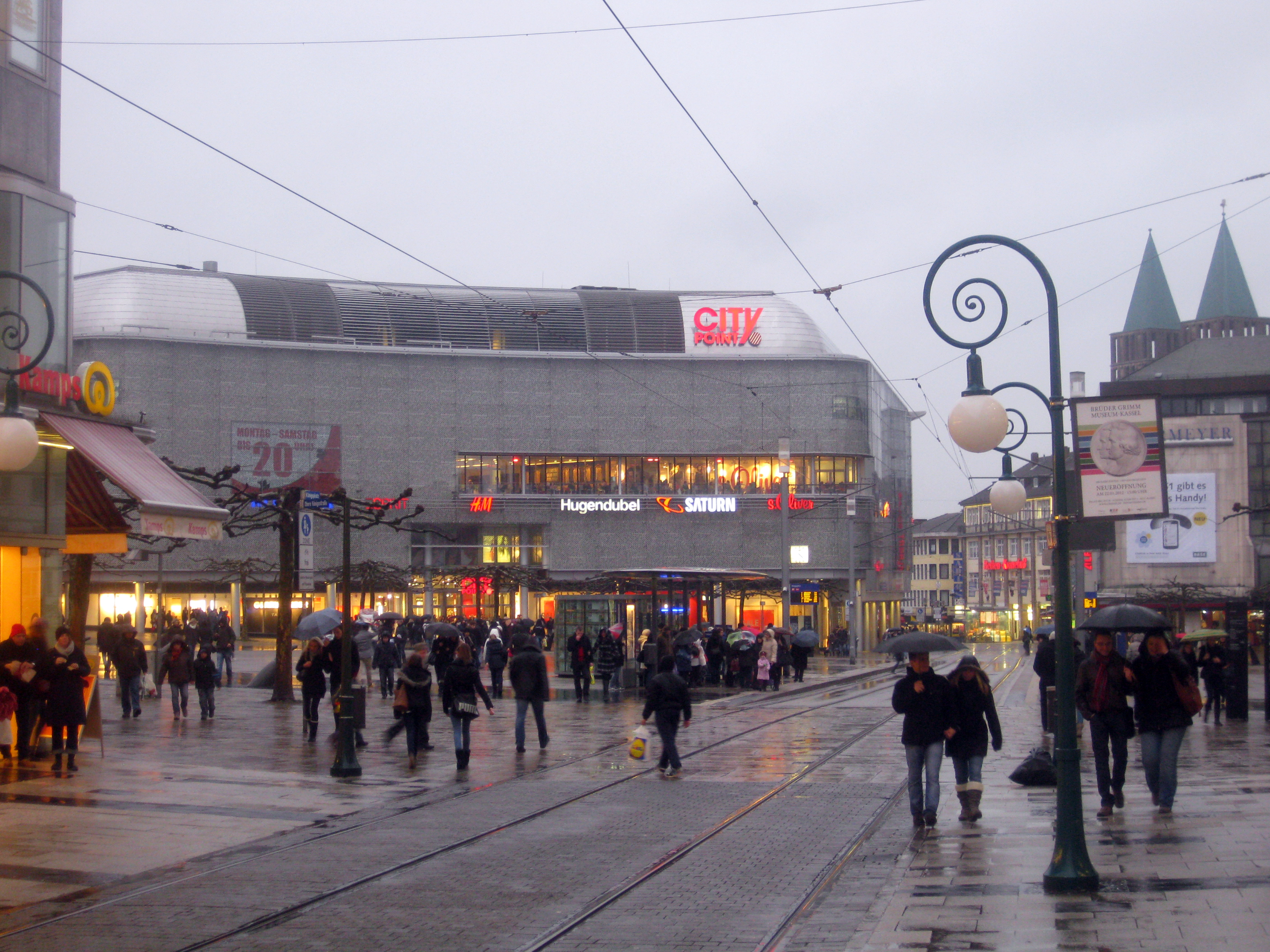 Königsplatz in Kassel